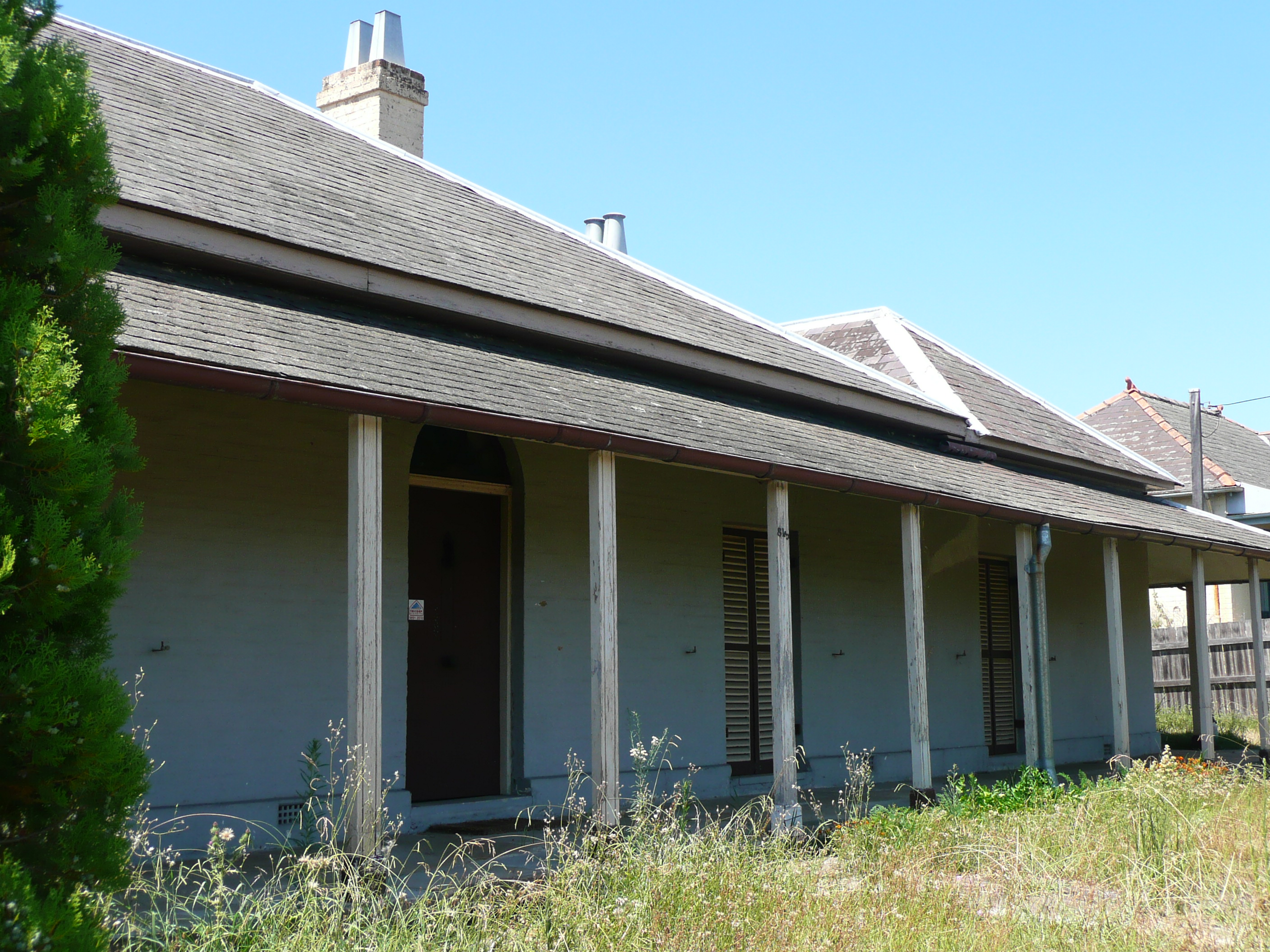 Addington, Victoria Road, Ryde, Sydney